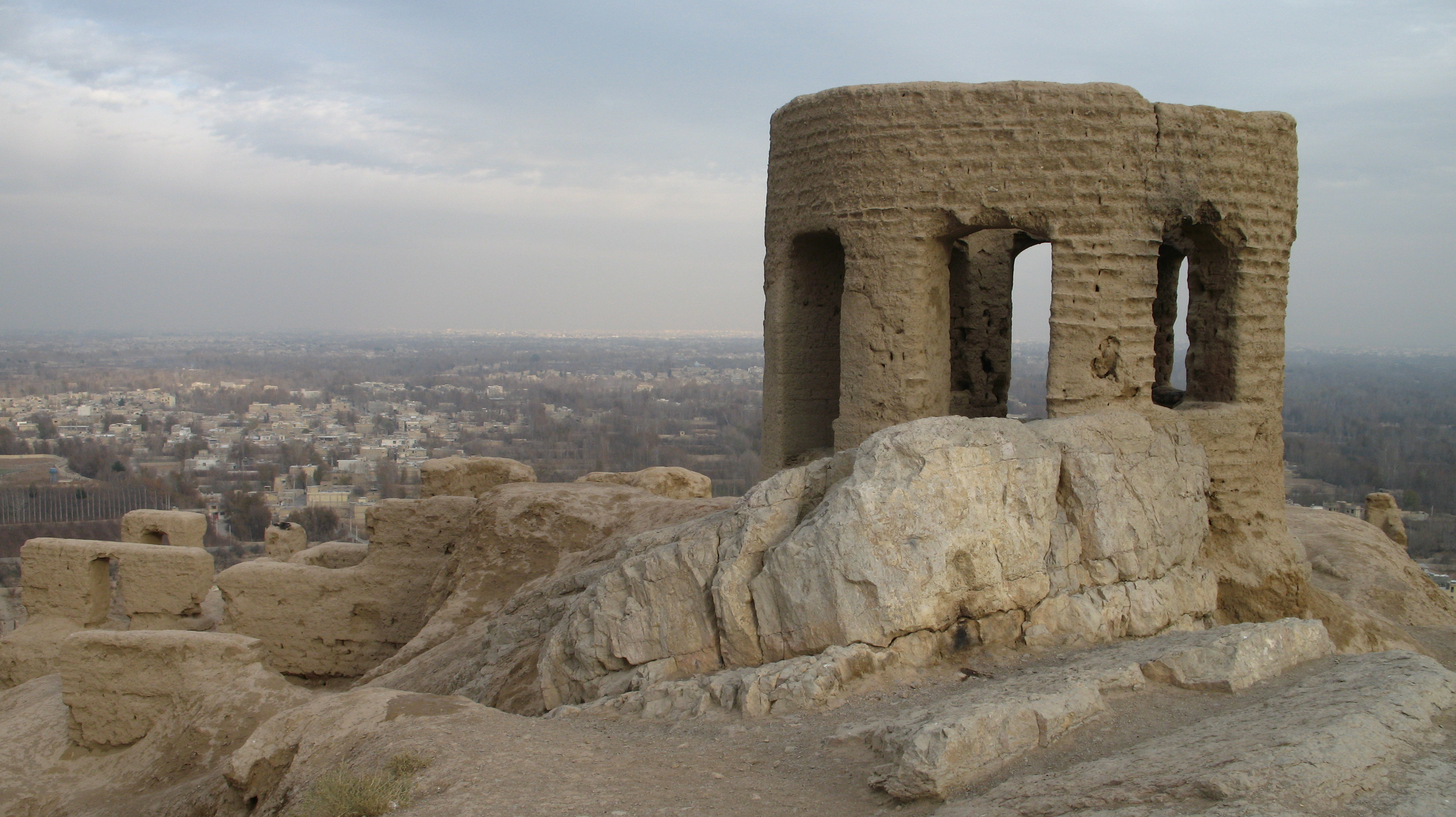 Zoroastrian fire temple, Atashgah, Isfahan , Iran